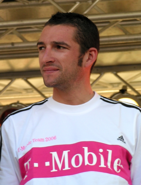 The Italian racing cyclist Lorenzo Bernucci at the team presentation for the Deutschland Tour 2006 in Düsseldorf, Germany.